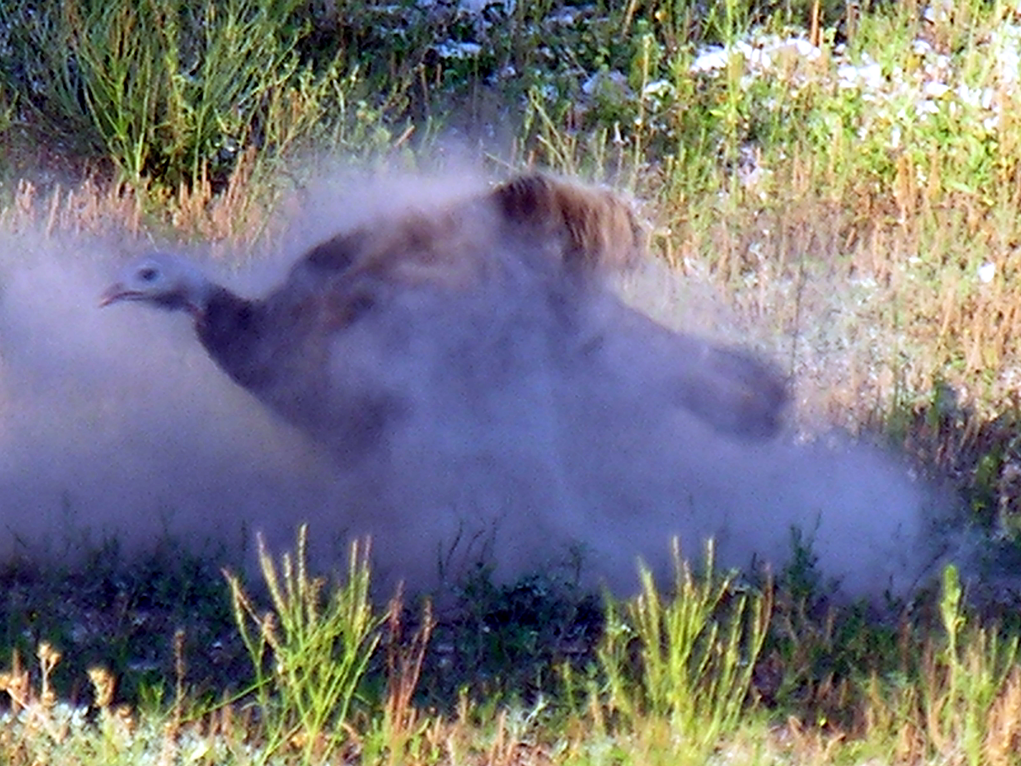 Jake turkey walked in to the clearing and went to work dust bathing for several minutes.